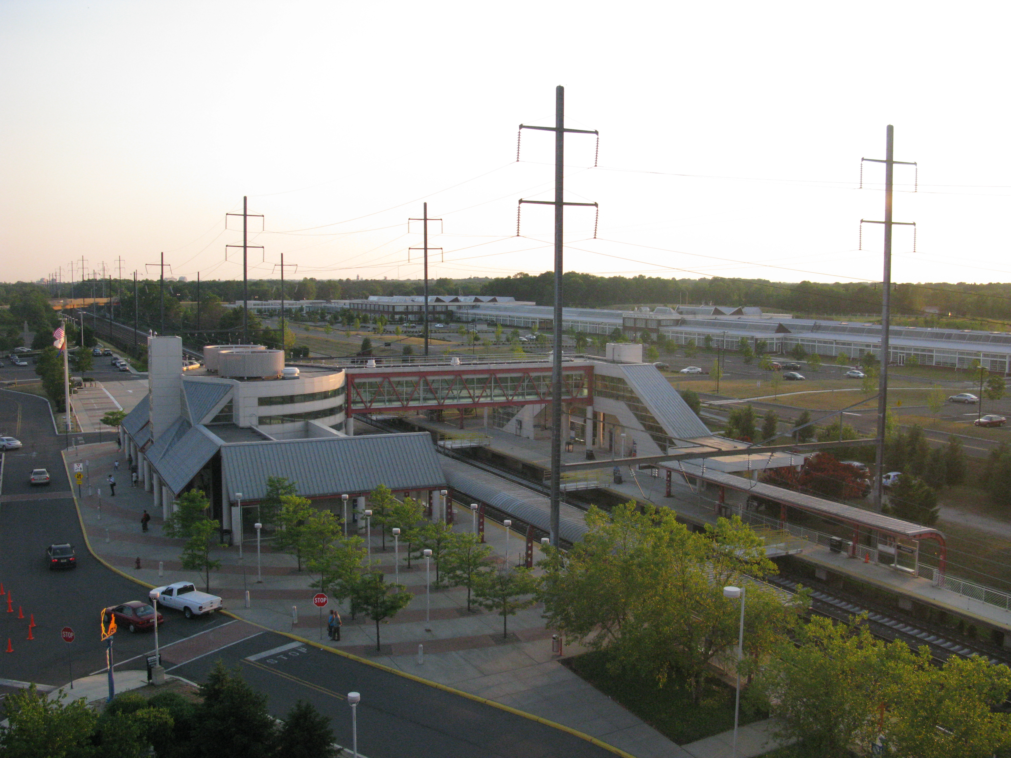 A picture I took of Hamilton Train Station from the top floor of the parking lot.